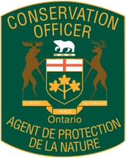 Arm patch and logo of the Ontario conservation officer service